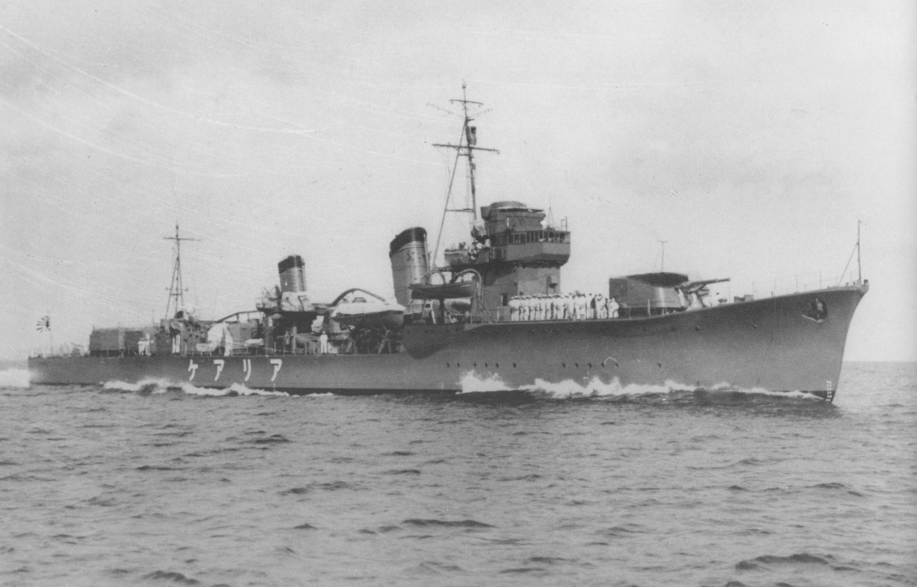 Imperial Japanese Navy destroyer Ariake, the second Japanese warship to bear that name.